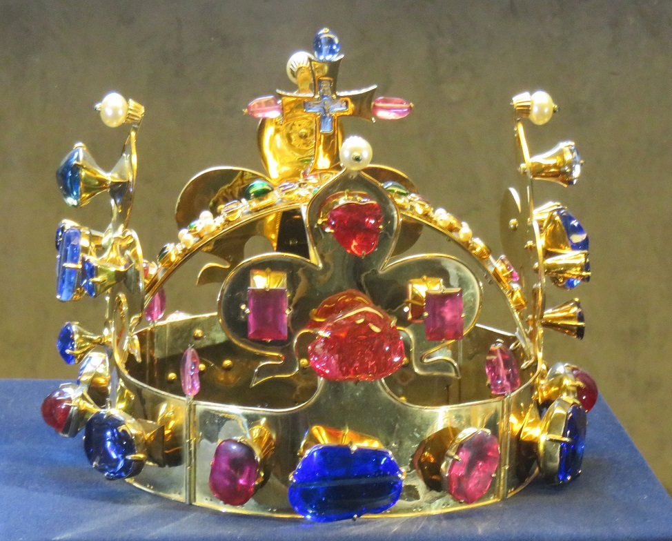 Copy of the coronation crown of the Kingdom of Bohemia in Prague Castle